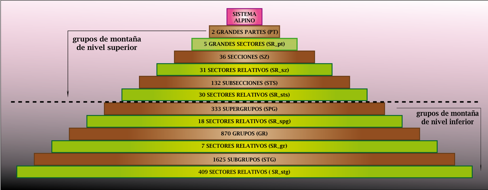 Pyramide Soiusa mountain's groups